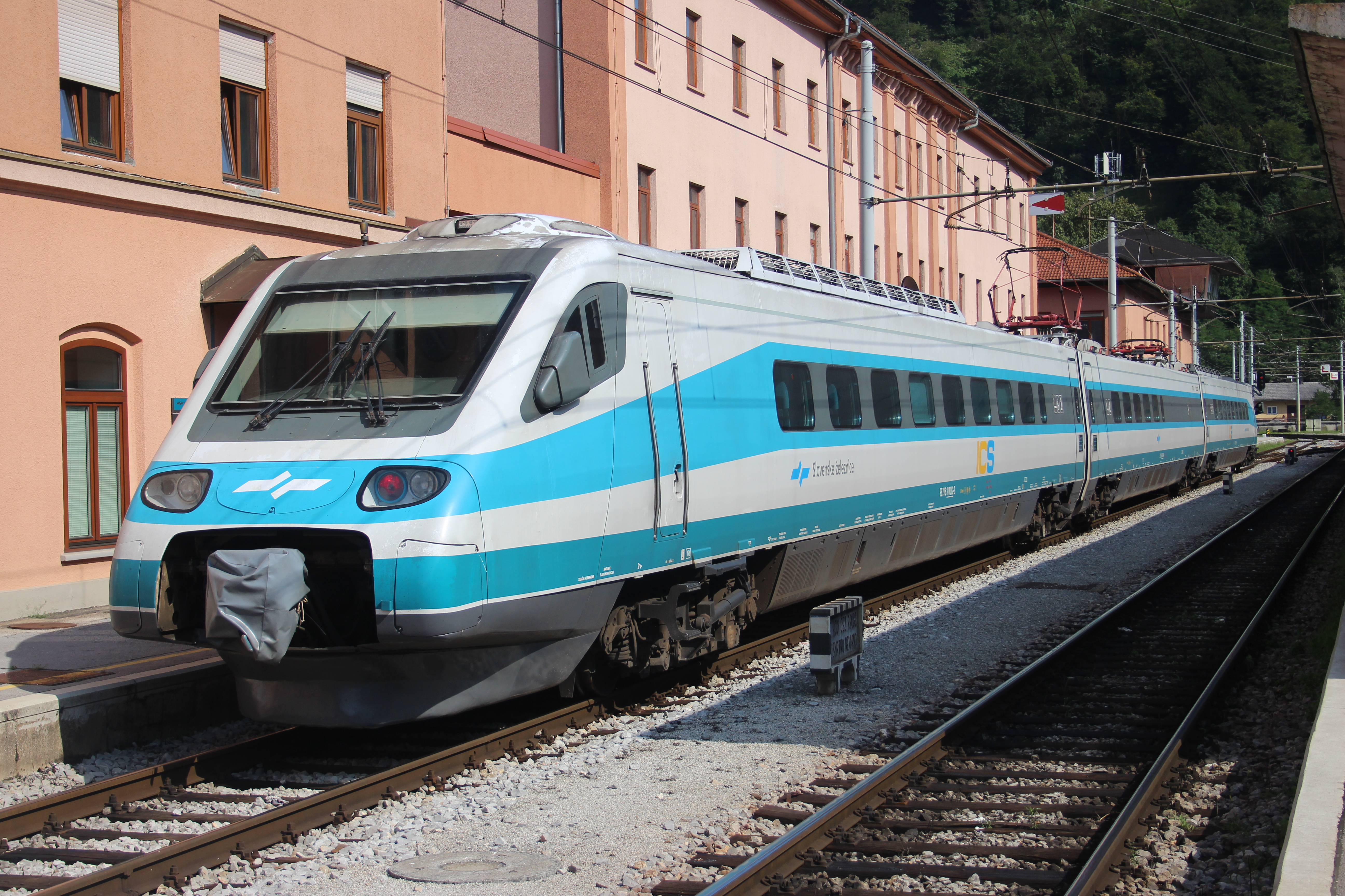 A Slovenian Pendolino train is seen at Zidani Most, having just terminated on an ICS service operated by SŽ. This is a fleet of just 3x three car units, capable of 100mph/160kph. It is understood that they have tilting disabled.